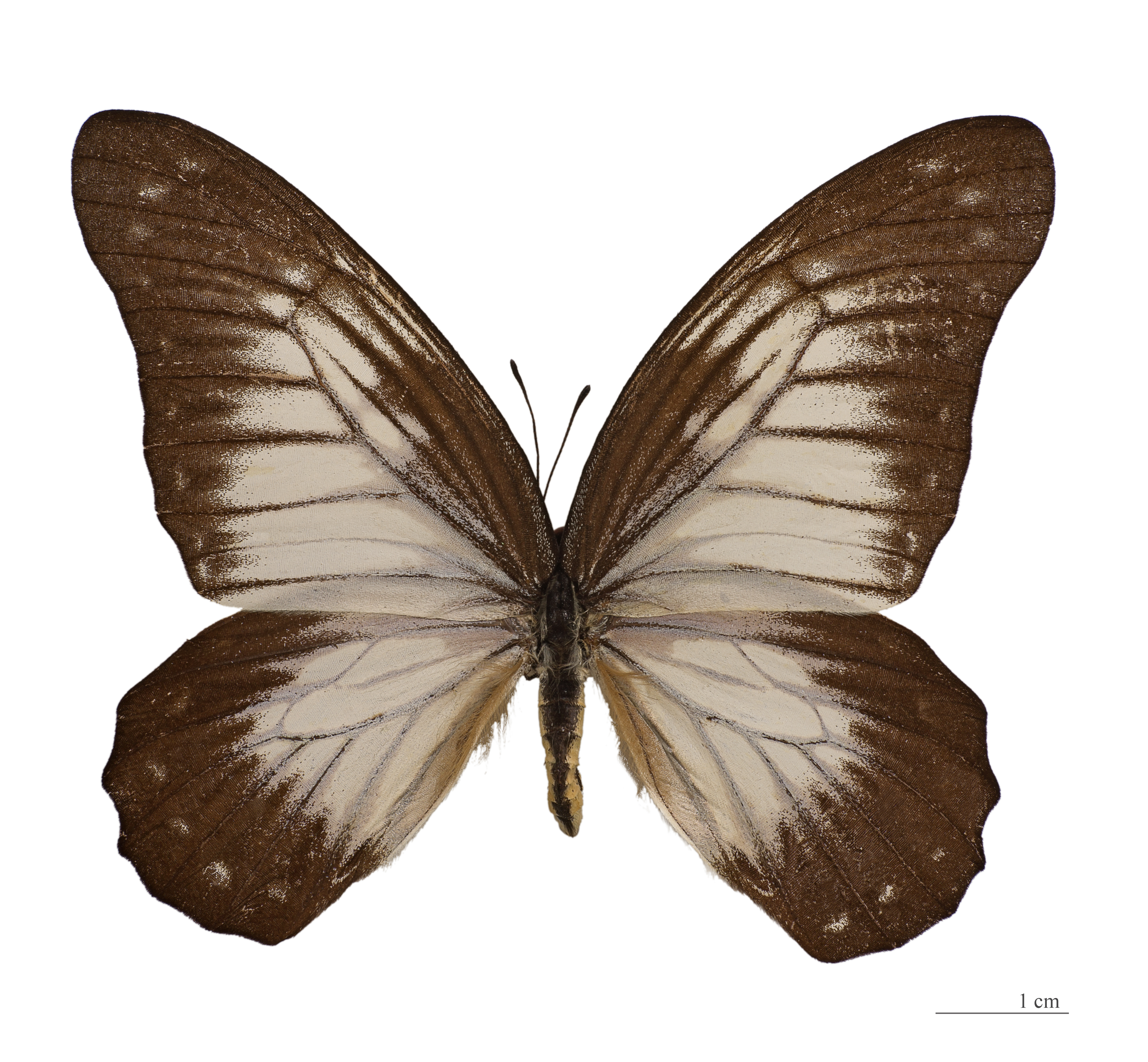 ♂ - Dorsal side Locality: Boukoko, South Sulawesi, Indonesia.